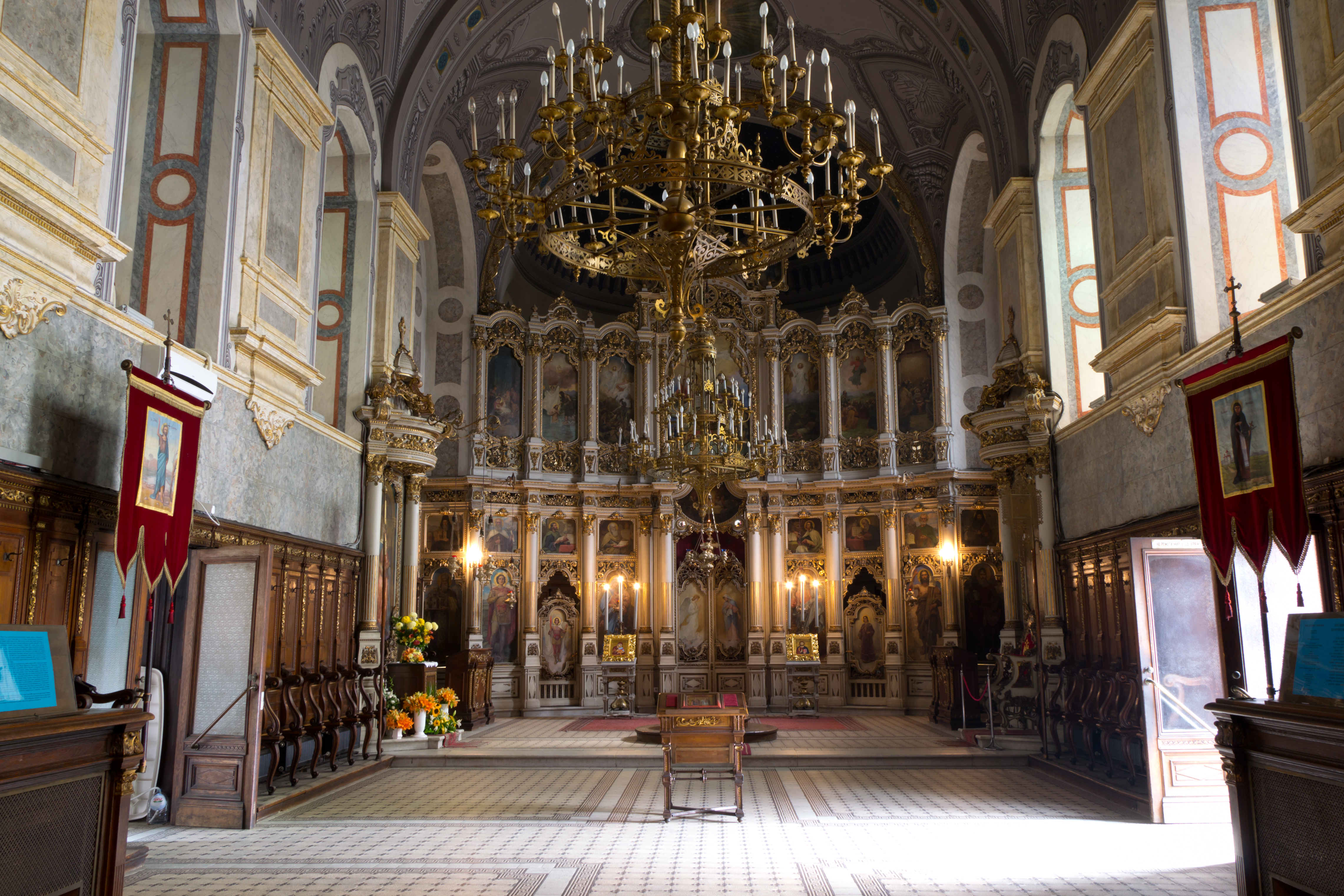 Saborna Crkva (Hram Svetog Georgija) in Novi Sad.